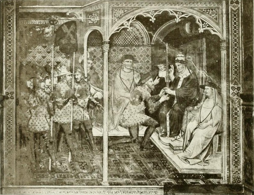 Fresco at Siena: Pope Alexander III entrusts the sword to the Doge: state of fresco in 1900